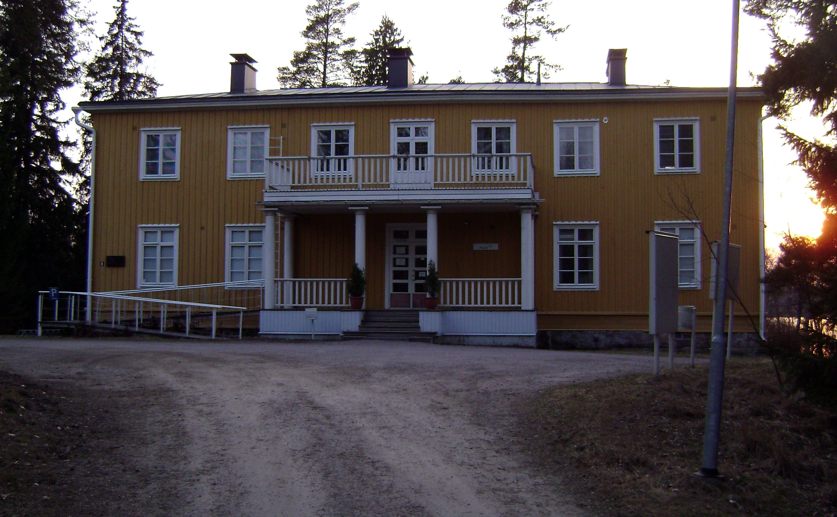 Ahola, former residence of Finnish writer Juhani Aho (1861–1921) in Järvenpää.